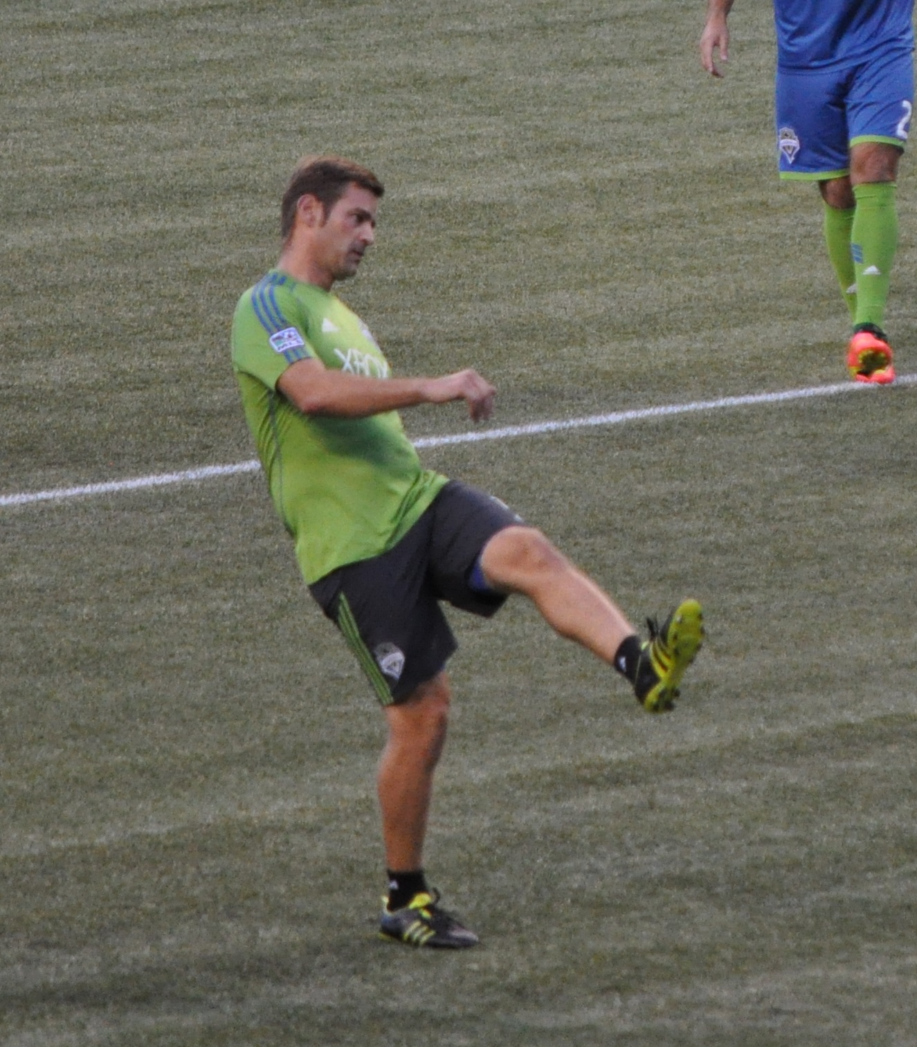 Tom Dutra, Clint Dempsey and other Seattle Sounders warming up for a game on September 12, 2014 against Real Salt Lake in Seattle, WA.